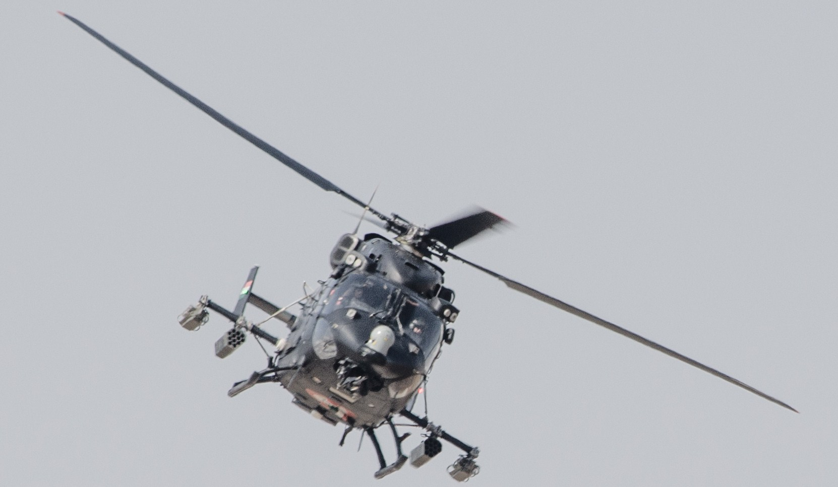 HAL Rudra attack helicopter of the Indian Army